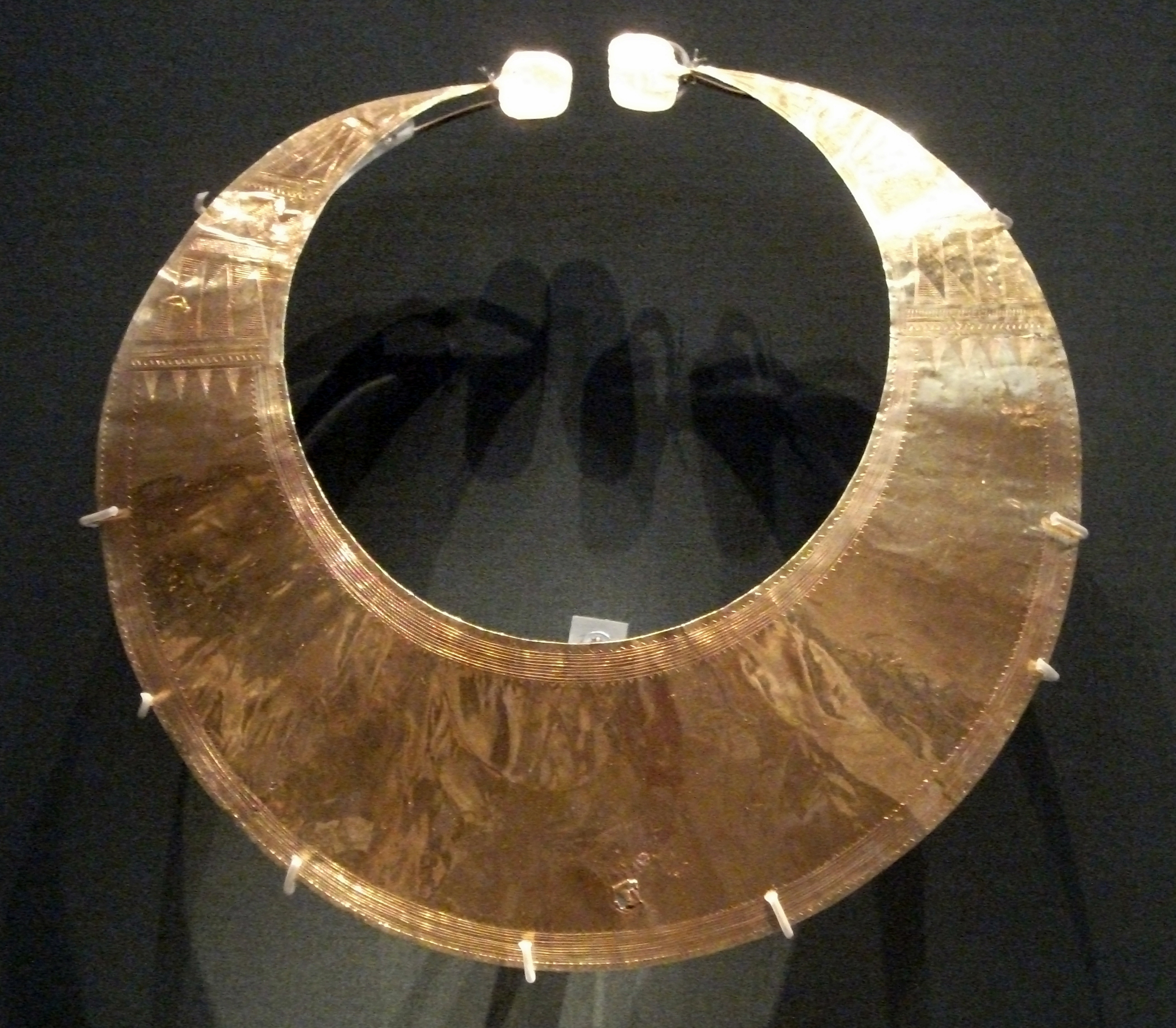 British Museum Blessingon lunula